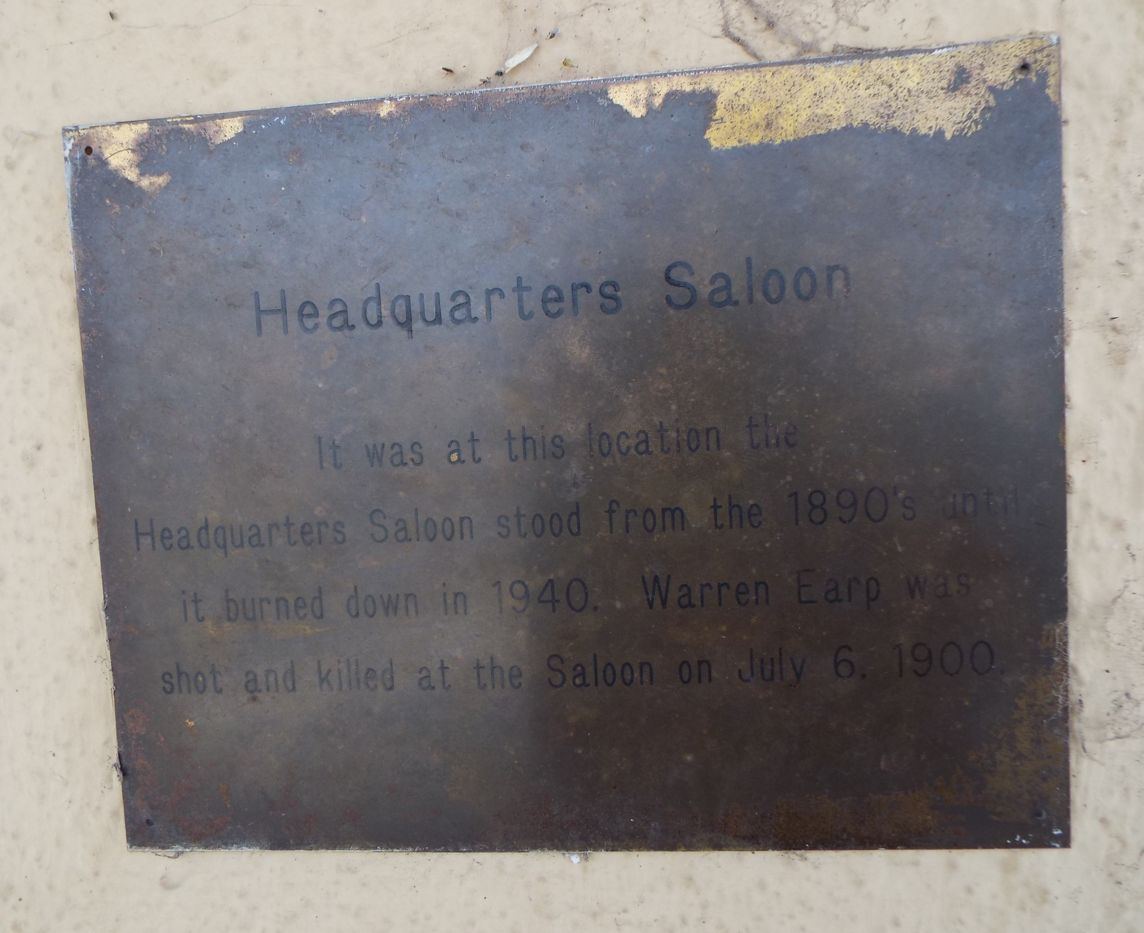 Arizona Historic Society marker Headquarter Saloon-1890 in Willcox, Arizona